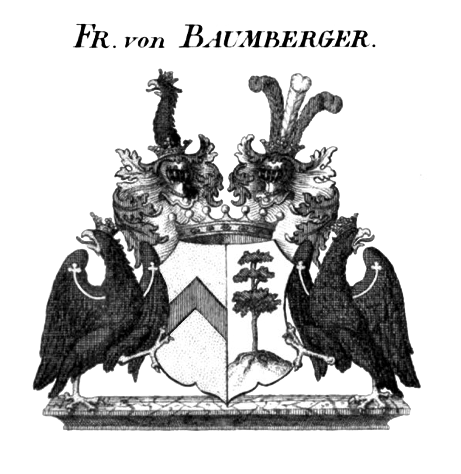 Coat of arms of Baumberger (Barons)